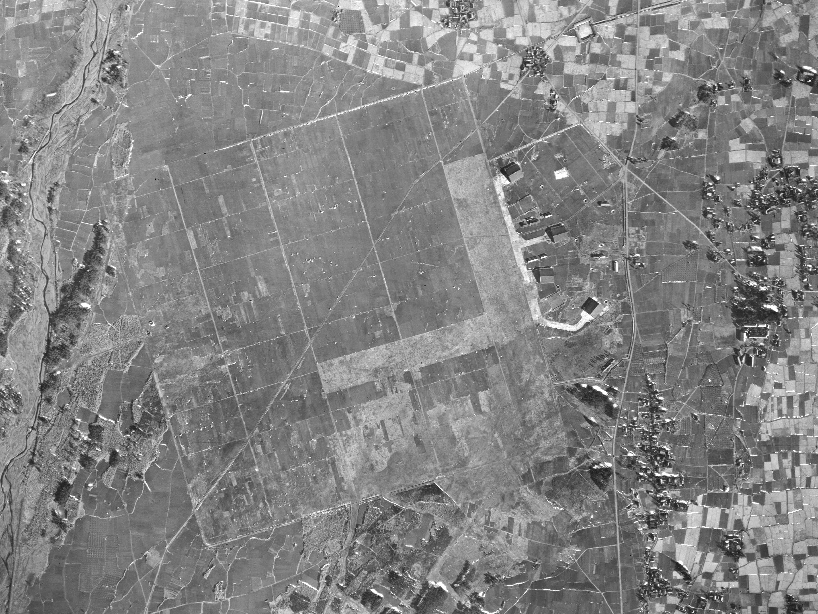 Imperial Japanese Army Matsumoto Airfield.